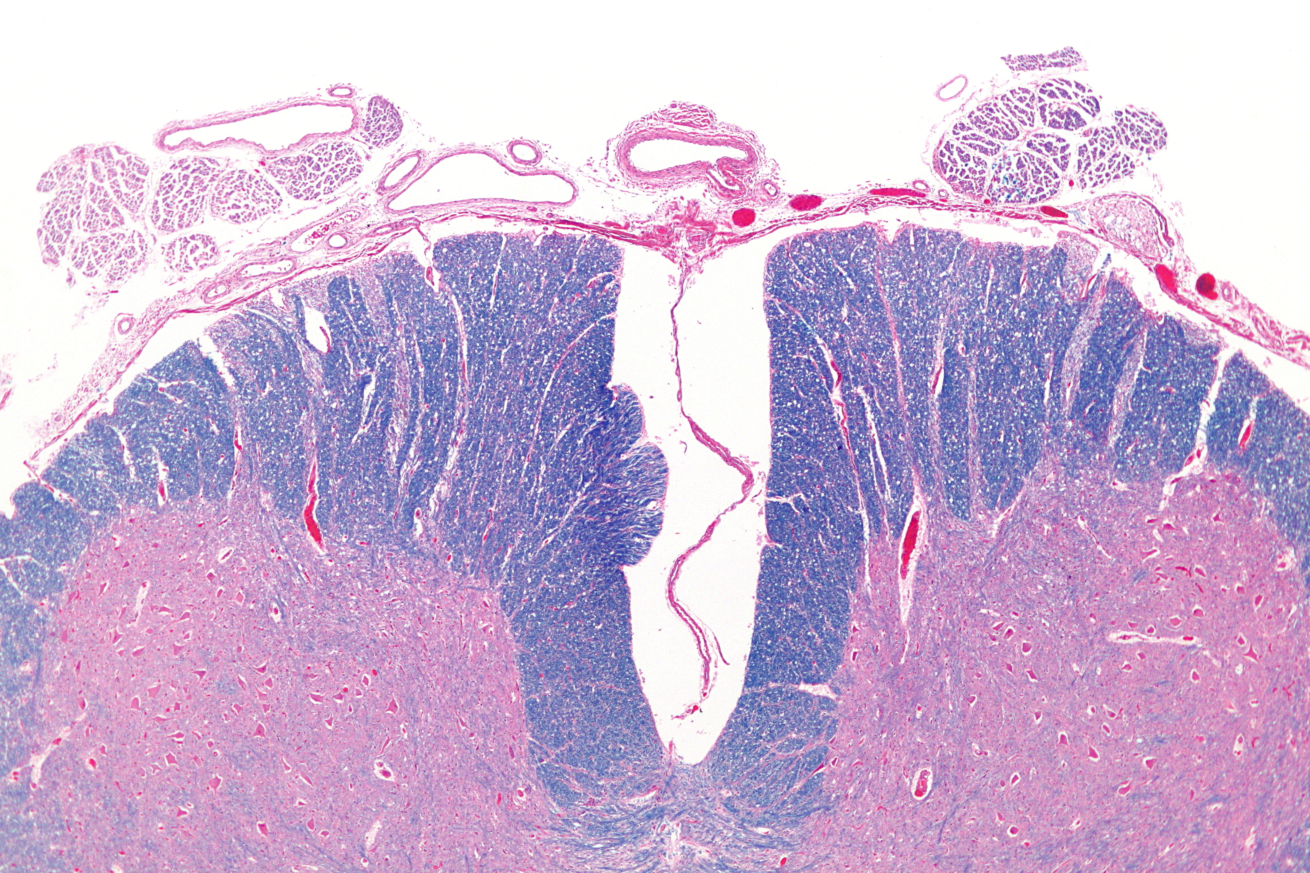 Very low magnification micrograph of the anterior spinal cord. LFB-H&E stain. The anterior spinal artery and anterior roots are seen on the image. The motor neurons have sentral chromatolysis. Related images Central chromatolysis (intermed. mag.).